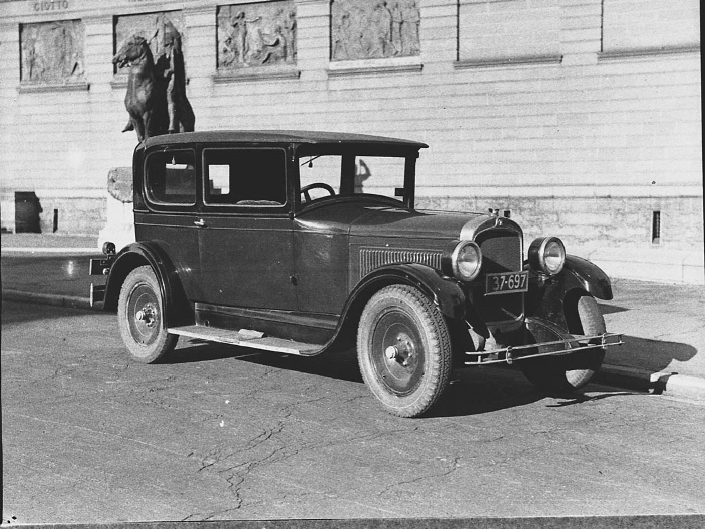 Hudson sedan or Hupmobile sedan (taken for Liberty Motors)